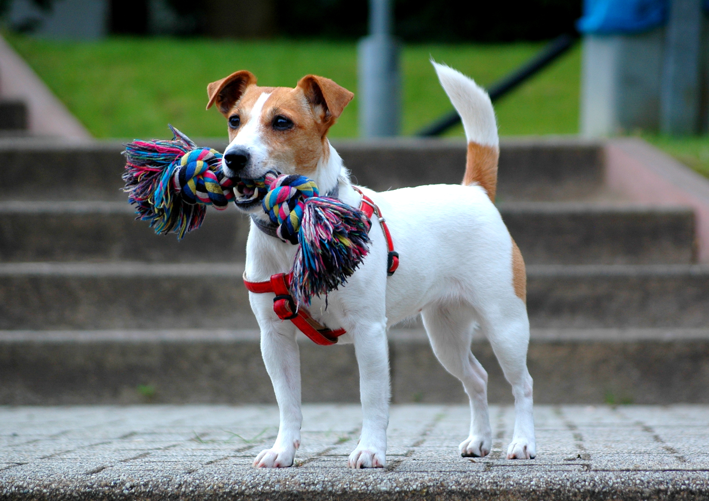 Jack Russell Terrier - bitch Demi